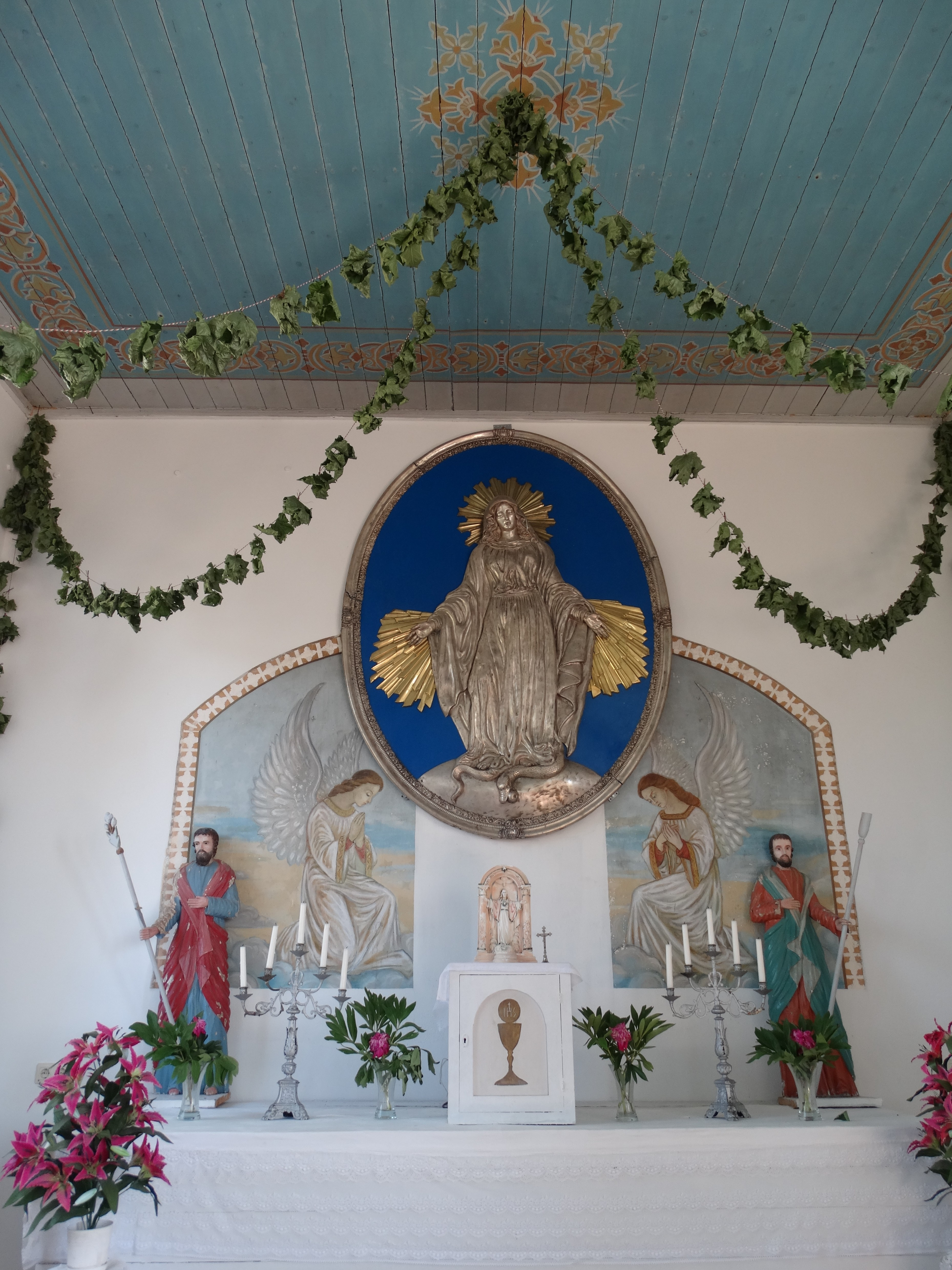 Virgin Mary in Spraudis Church, Rietavas Municipality, Lithuania